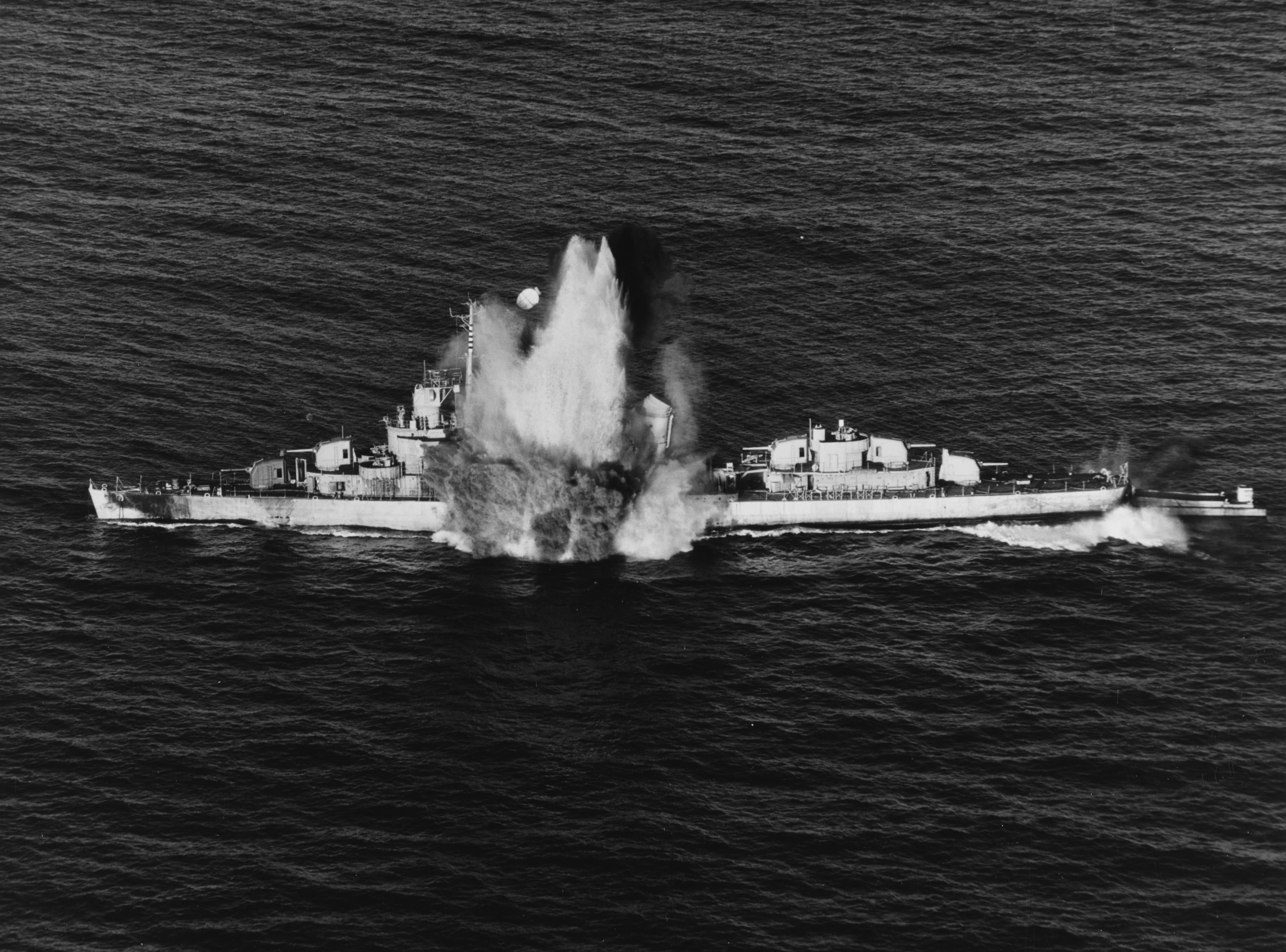 The U.S. Navy destroyer USS Howorth (DD-592) being sunk by submarine torpedoes off San Clemente Island, California (USA), on 8 March 1962. The small landing craft astern was designed to move the ship to present the submarine with a moving target. This view shows the second torpedo exploding amidships. Note the forestack cap blown into the air by the explosion. The torpedos were fired by Submarine Flotilla 1 (COMSUBFLOT 1).